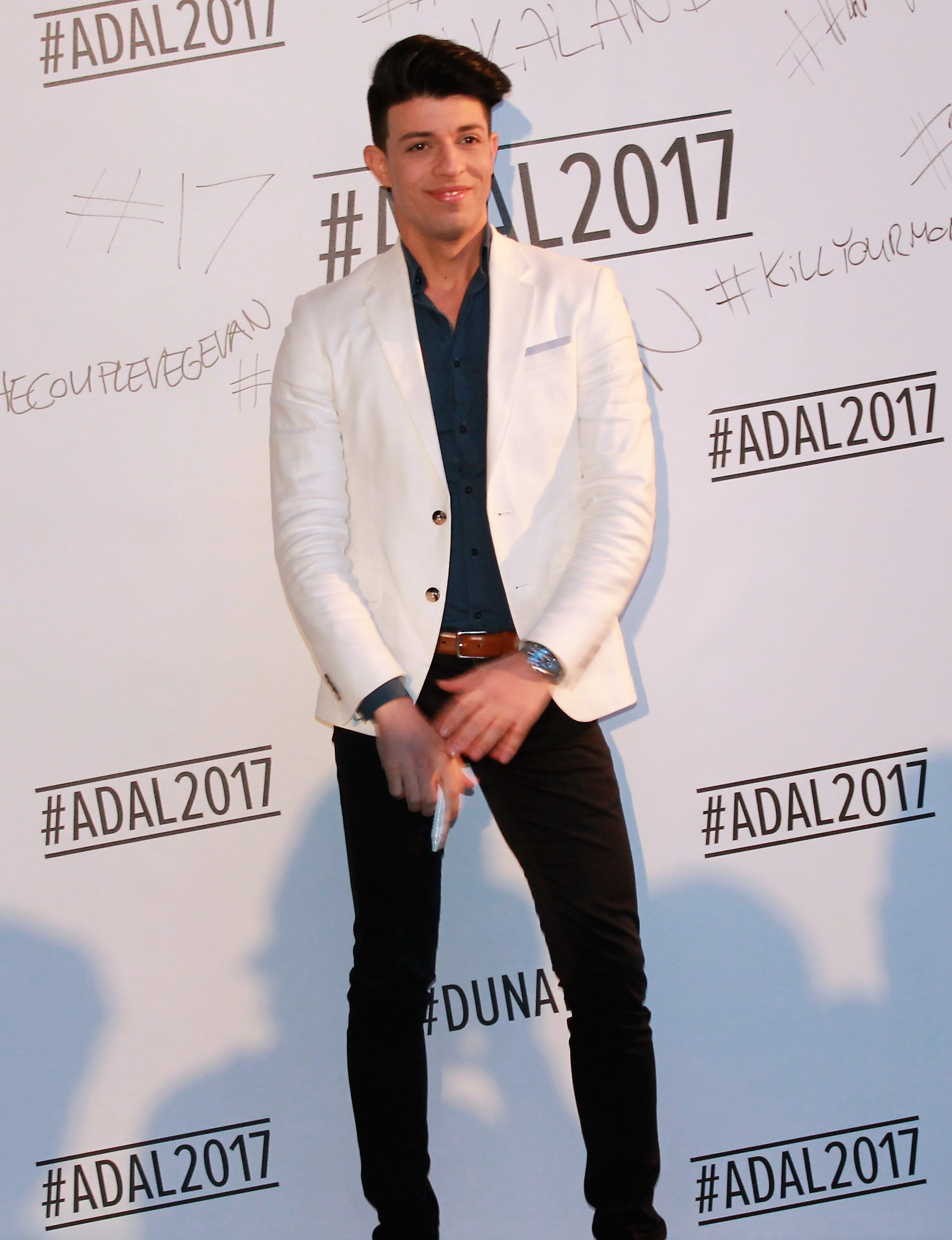 A Dal 2017 participant: Zoltán Mujahid